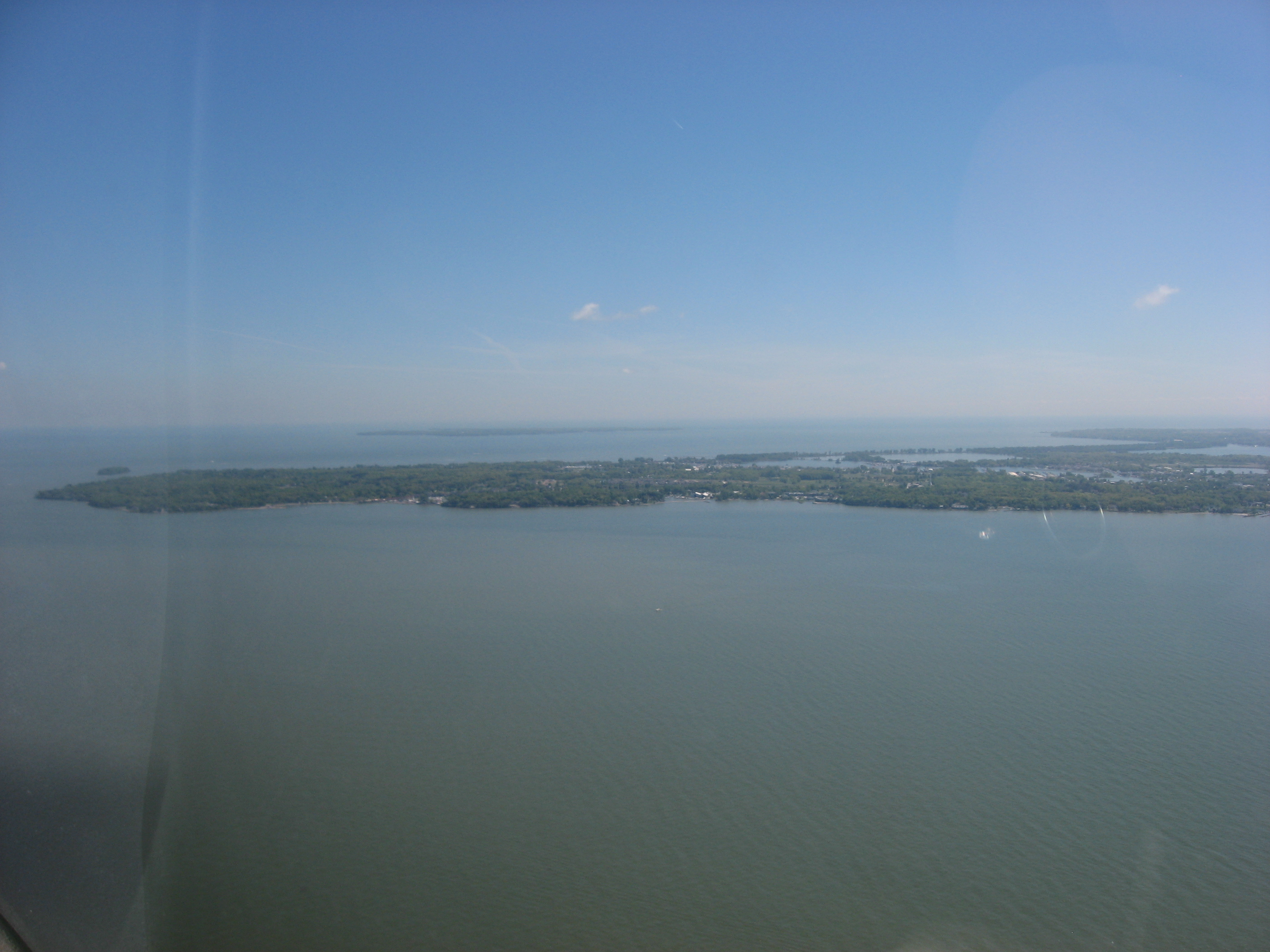 Catawba Island, a small island off the Marblehead Peninsula northeast of the city of Port Clinton, in Ottawa County, Ohio, United States. Picture taken from a Diamond Eclipse light airplane at an altitude of 1,550 feet MSL and a bearing of approximately 80º.